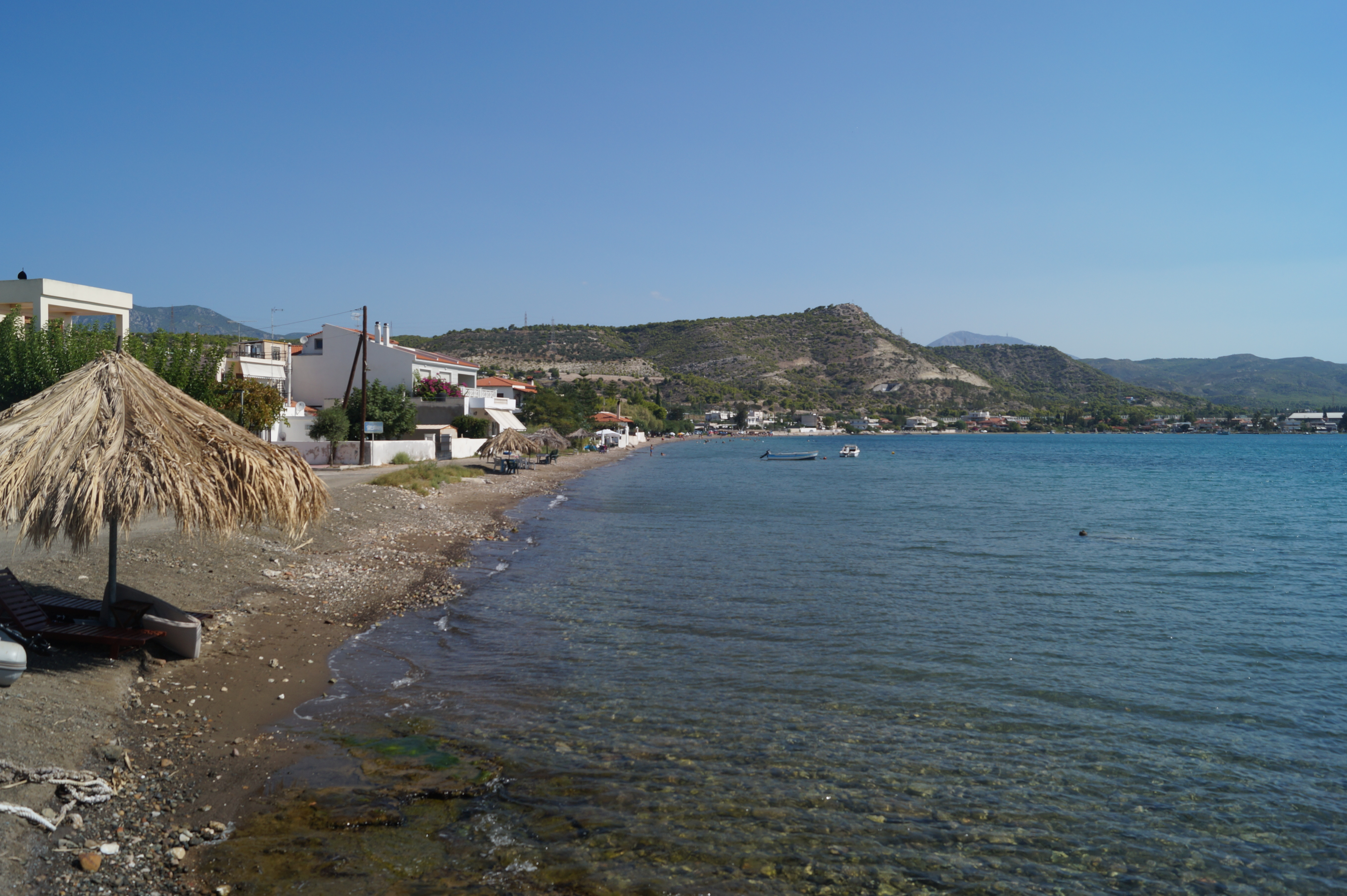 Kalamaki, Isthmia, Corinthia, Greece: Kalamaki beach. On the hill in the backgound in 1956 Oscar Broneer excavated an Early Helladic cemetary.